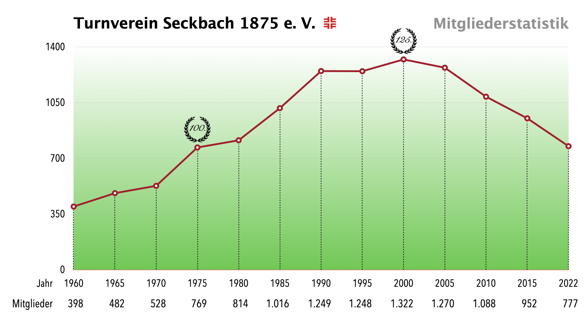 Membership Statistics, Turnverein Seckbach 1875, Frankfurt am Main, Hesse, Germany